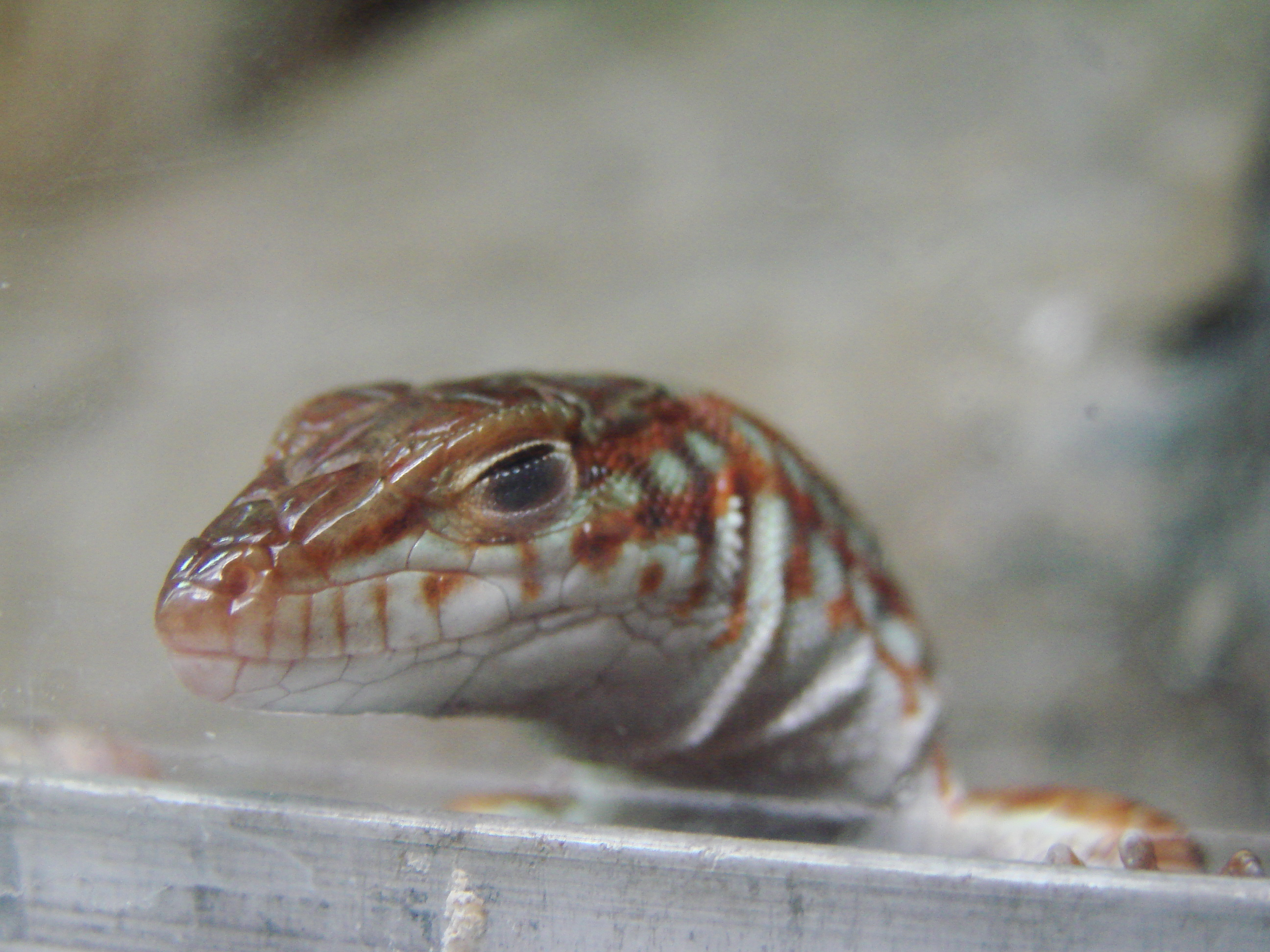 Picture taken in the zoo of Wrocław (Poland): Latastia longicaudata (Reuss, 1834)